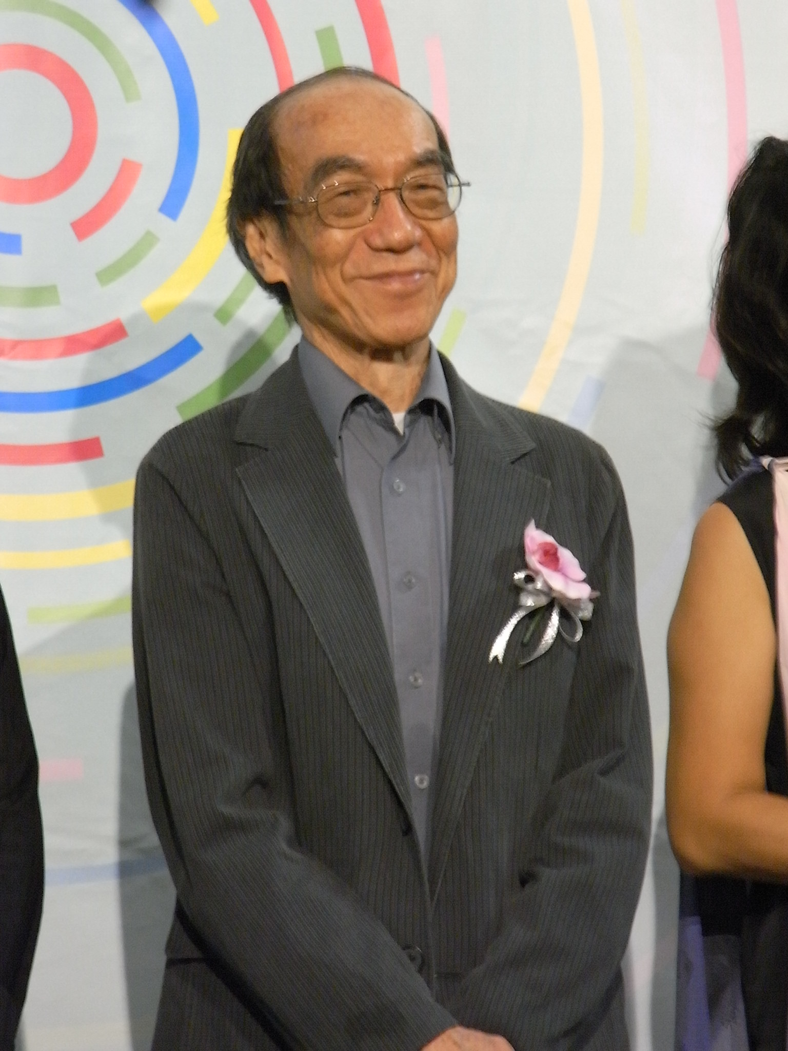 中環6月25日 香港正形設計學校 學生畢業展2010年 王無邪校董